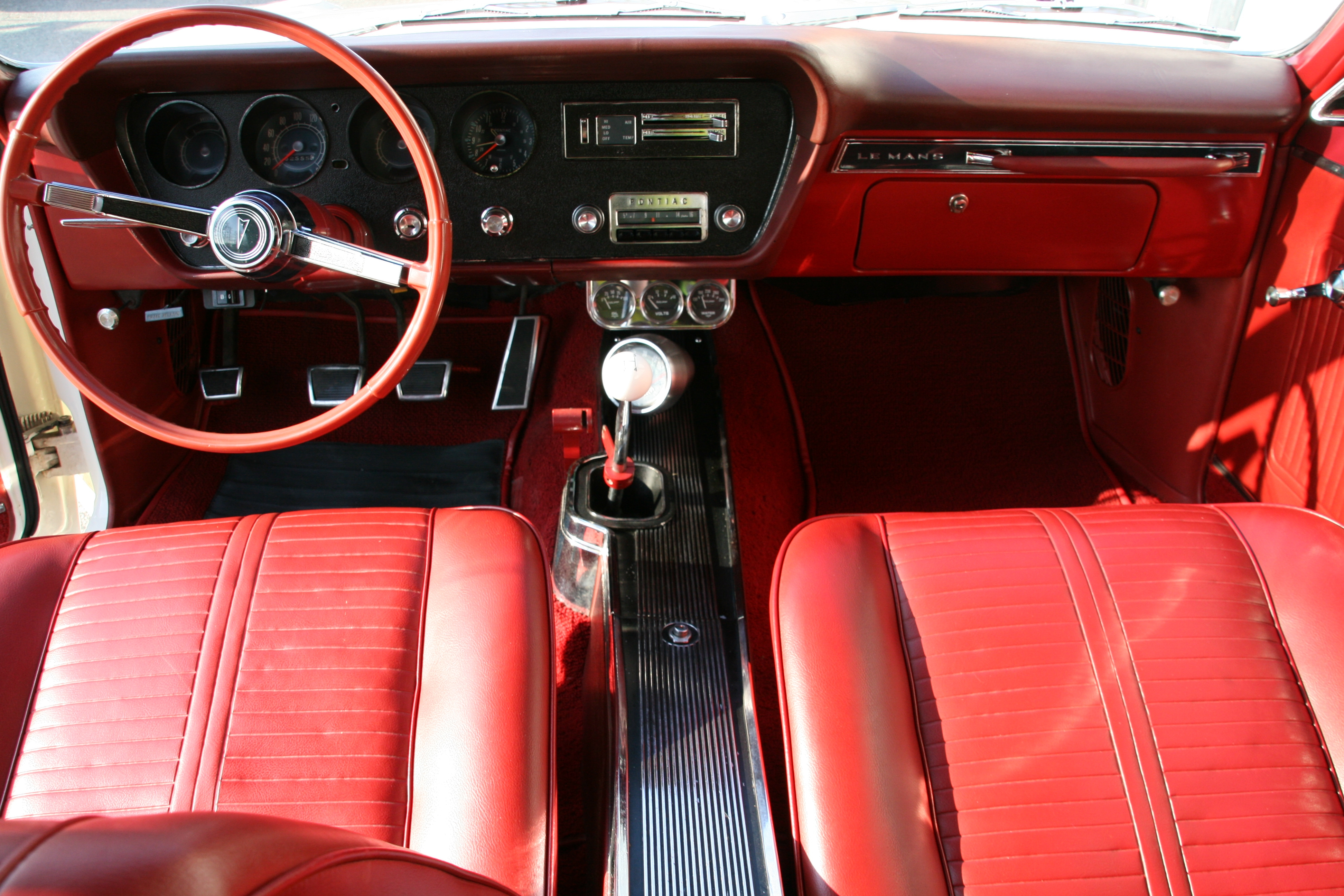 1965 Pontiac Tempest Le Mans Hardtop Coupe Cockpit